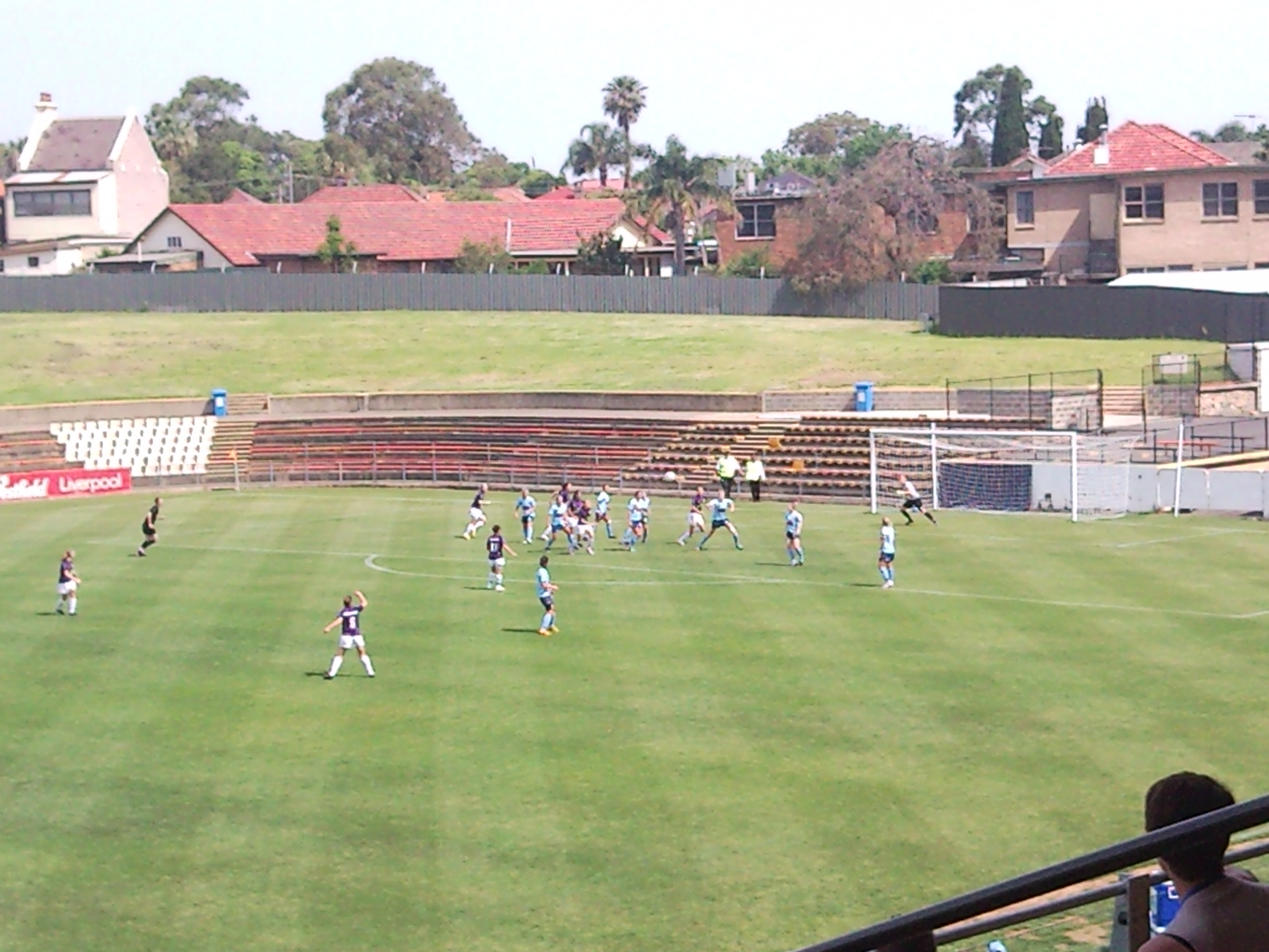 Sydney FC W-League team takes on Perth Glory W-League team at Leichhardt Oval in November 2009